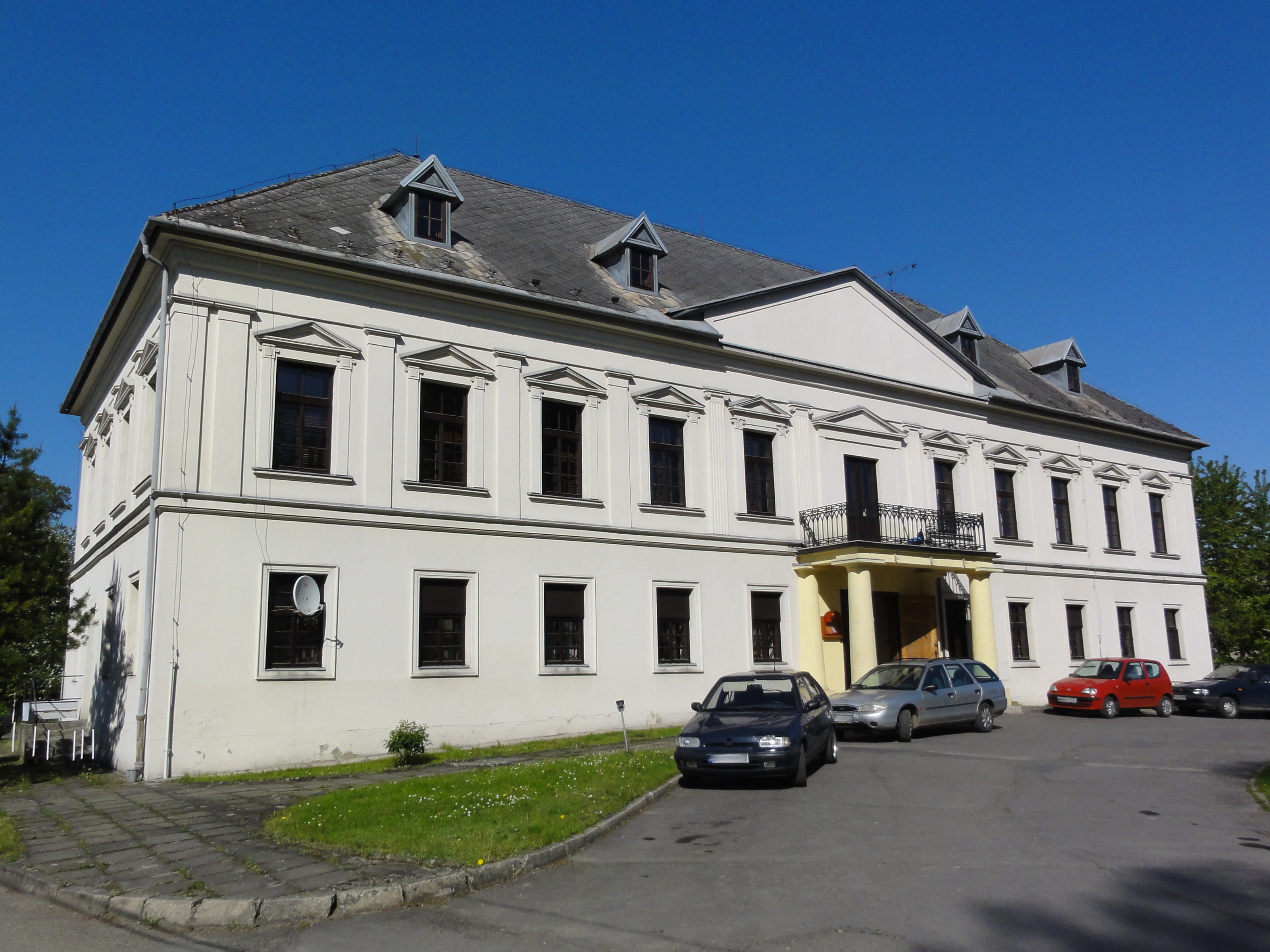 Prstná - zámek Šumbark